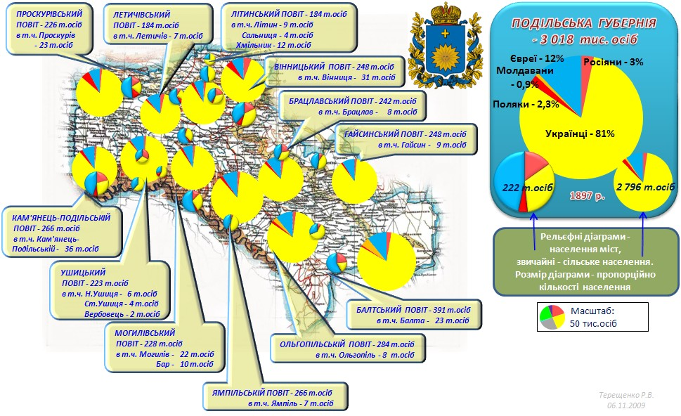 Ethnic groups Podolsk province according to Census 1897